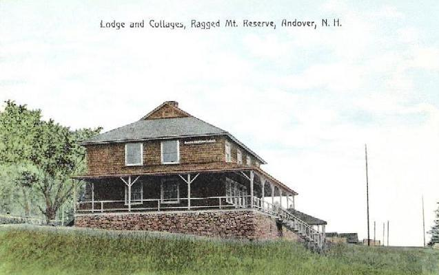 Lodge & Cottages, Ragged Mountain Reserve, Andover, NH; from a c. 1920 post card.